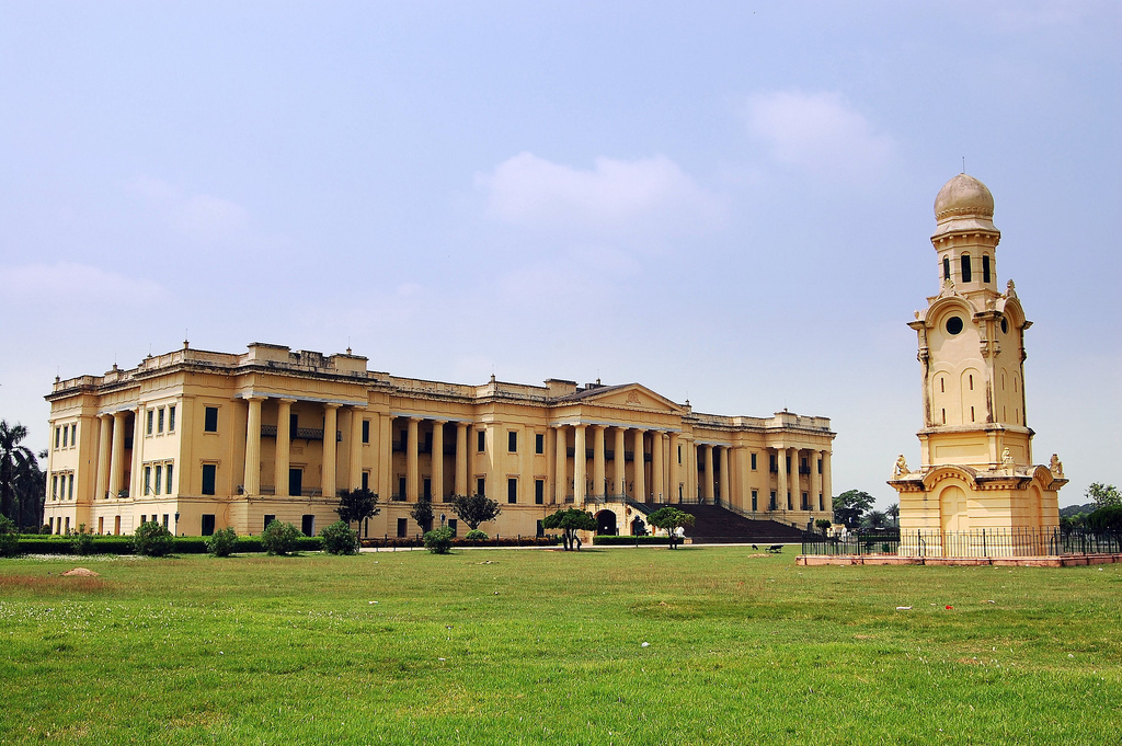 hazarduari